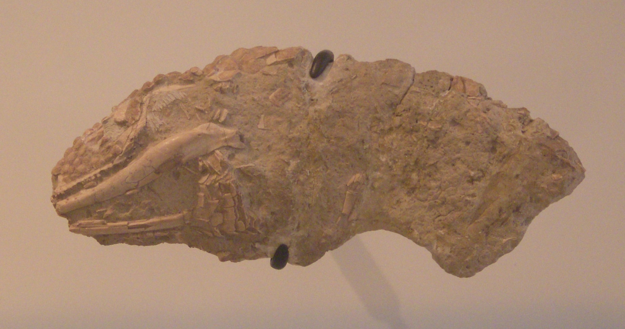 Fossil of Helodermoides tuberculatus (AMNH 11311) in the American Museum of Natural History.